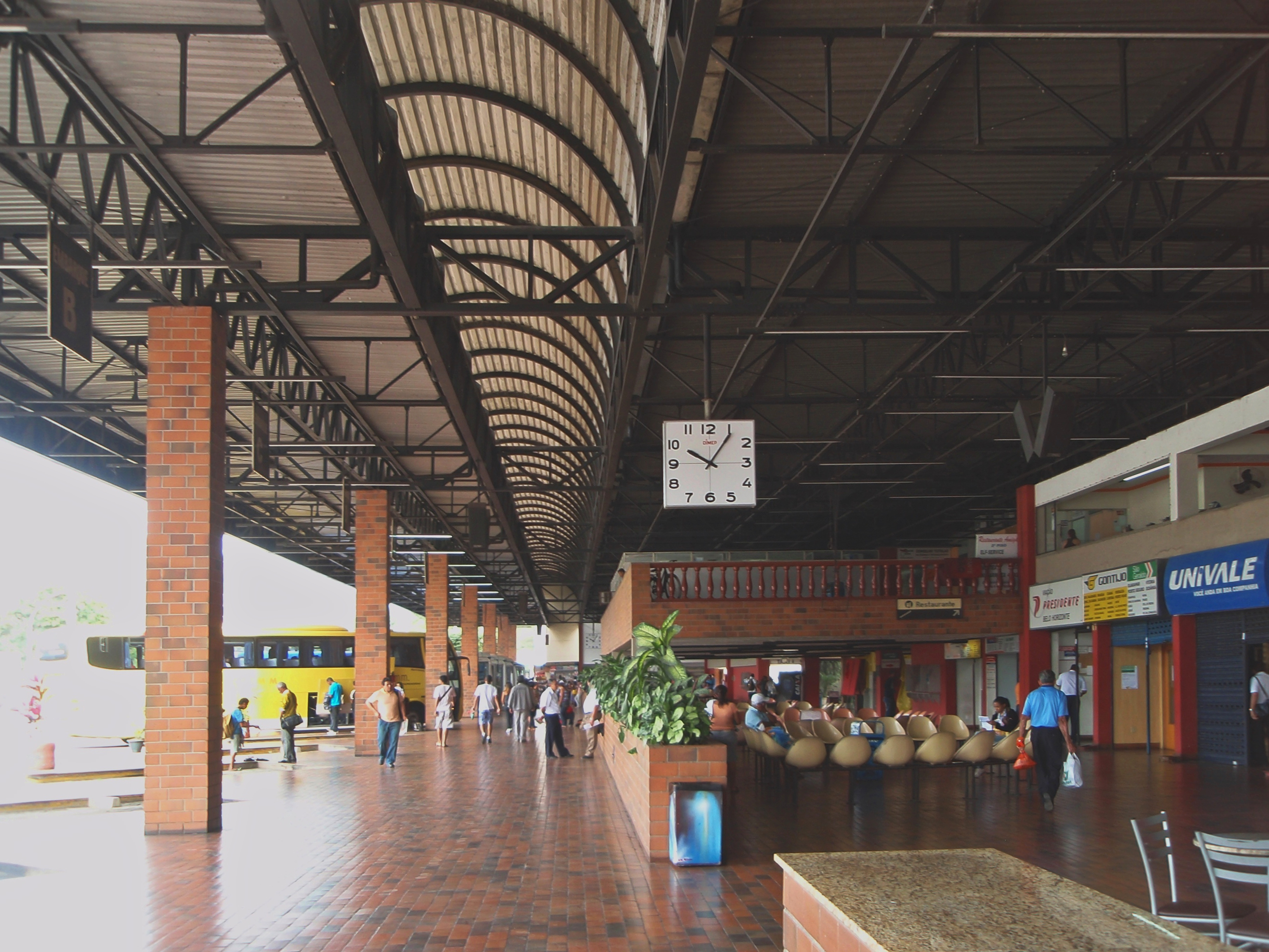 Interior of the Coronel Fabriciano bus station, in Coronel Fabriciano, Minas Gerais, Brazil.